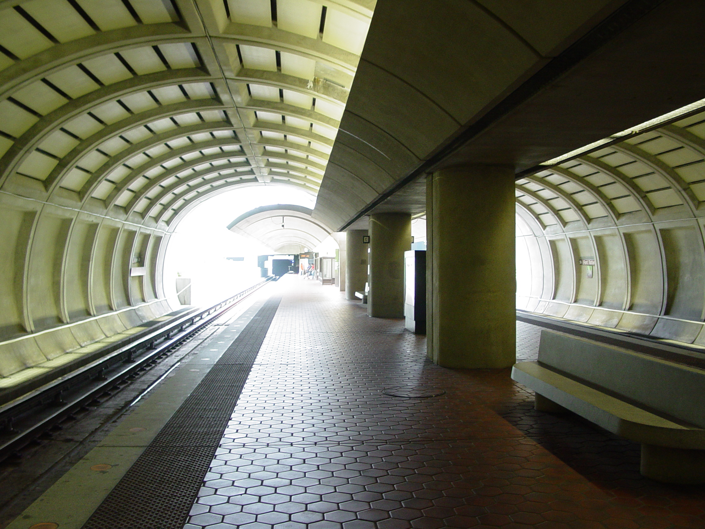 Lower level of Fort Totten station from inside the tunnel, facing outbound.